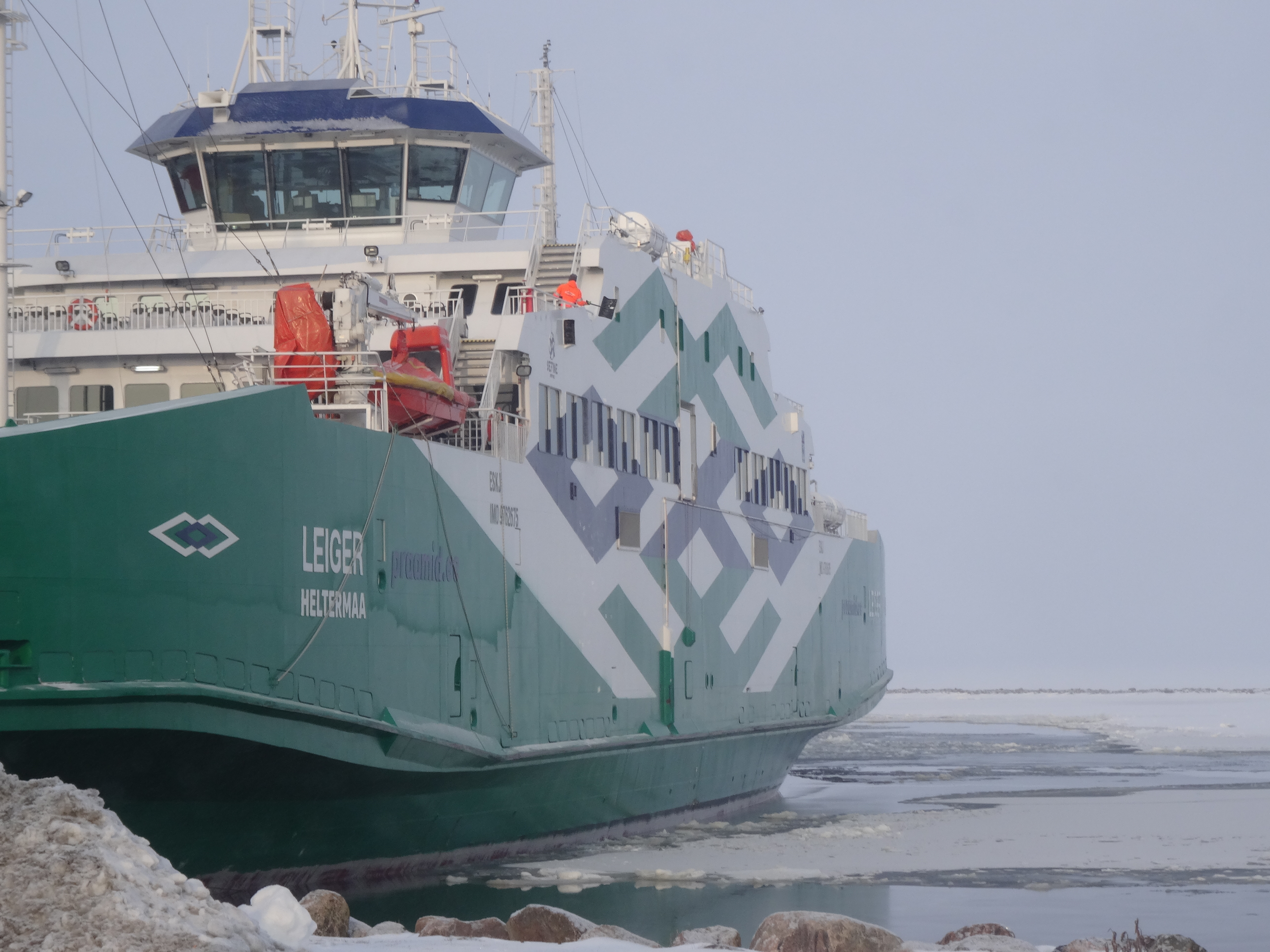 Ferryship "Leiger" in Rohuküla harbour (February 2018)